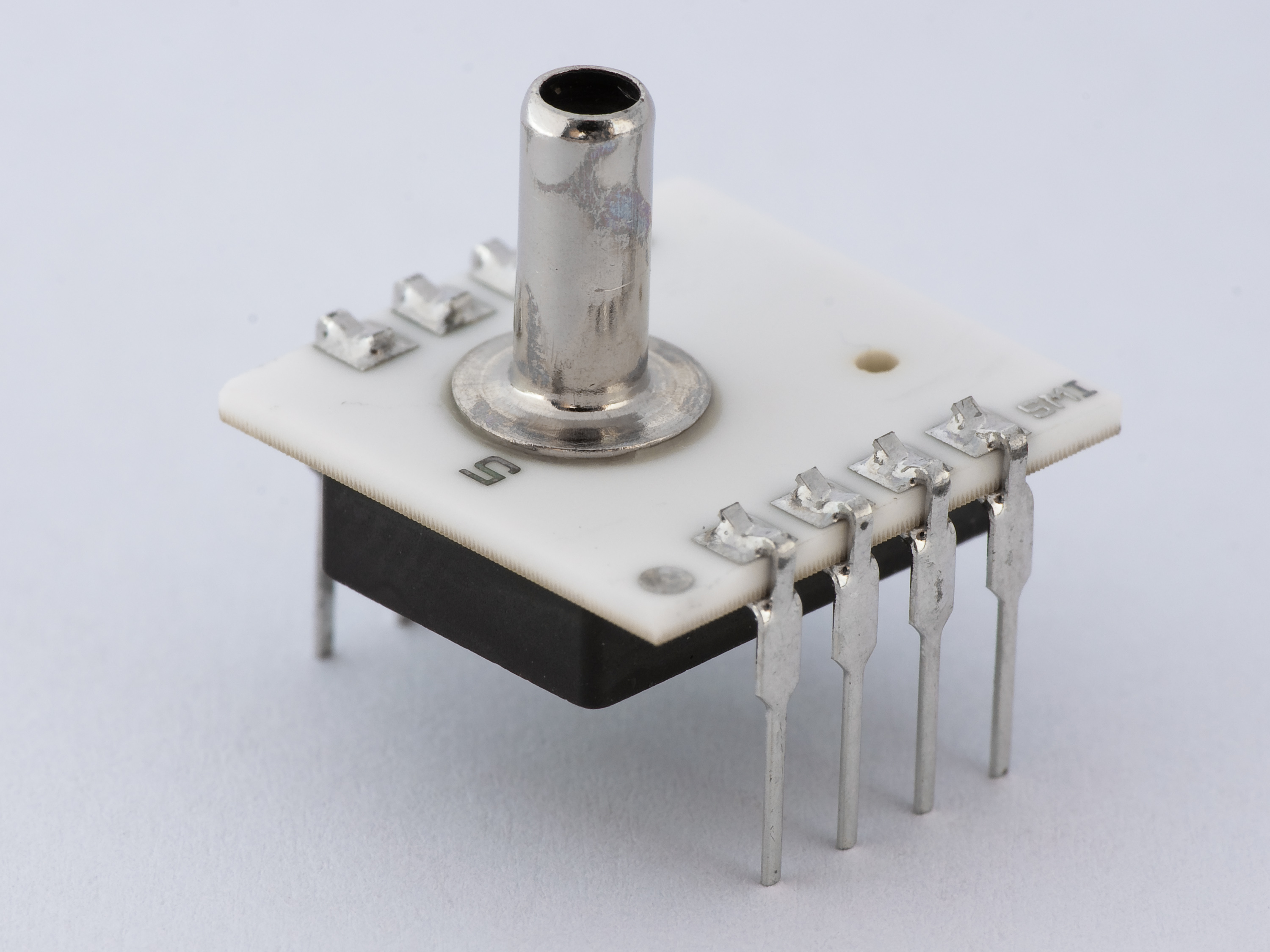 Digital gauge pressure sensor for medical purposes from Silicon Microstructures.Measuring method: Piezoresistive effect